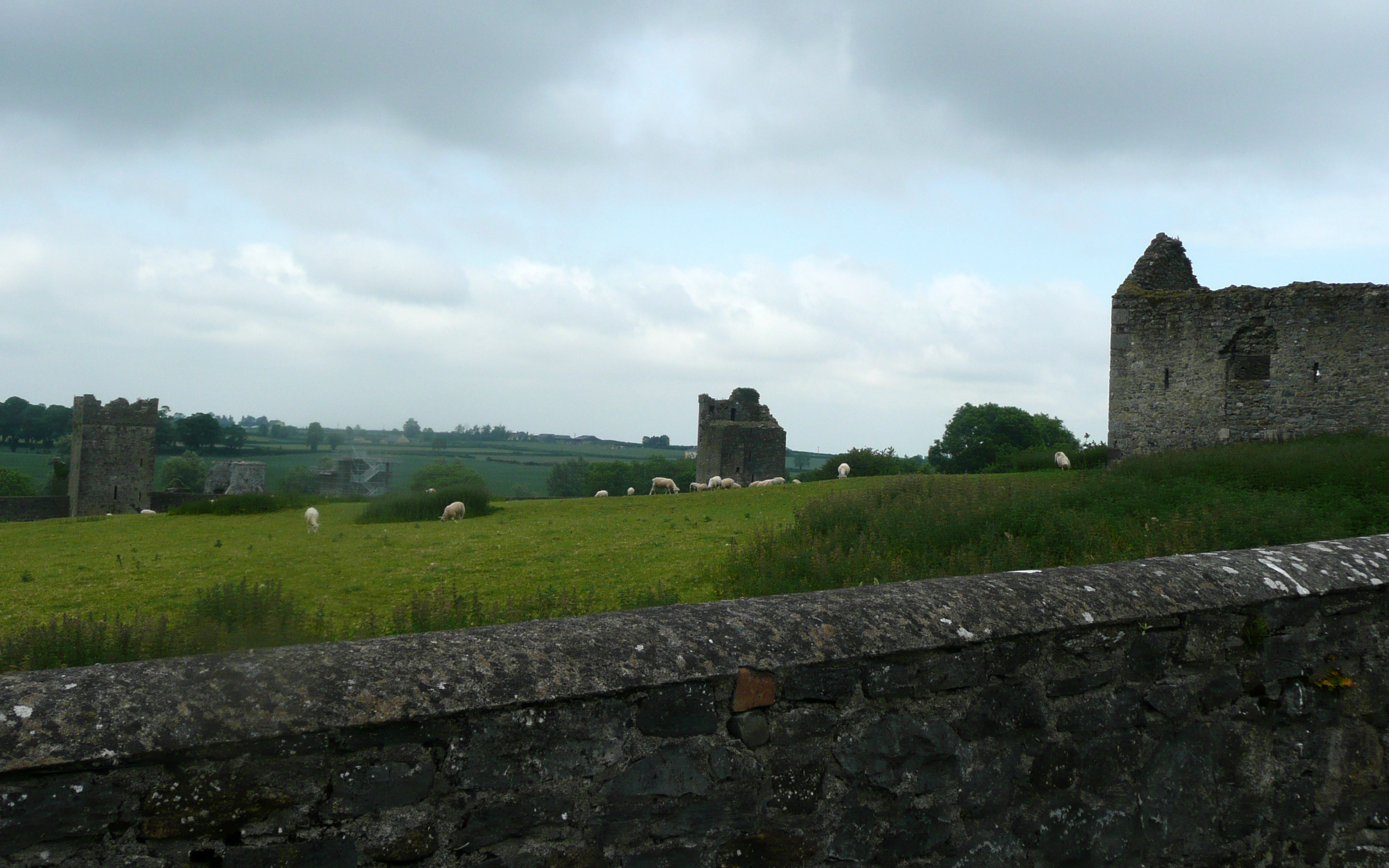 Sheep graze on the ruins of the Kells Priory in Kells, Co. Kilkenny, Ireland.